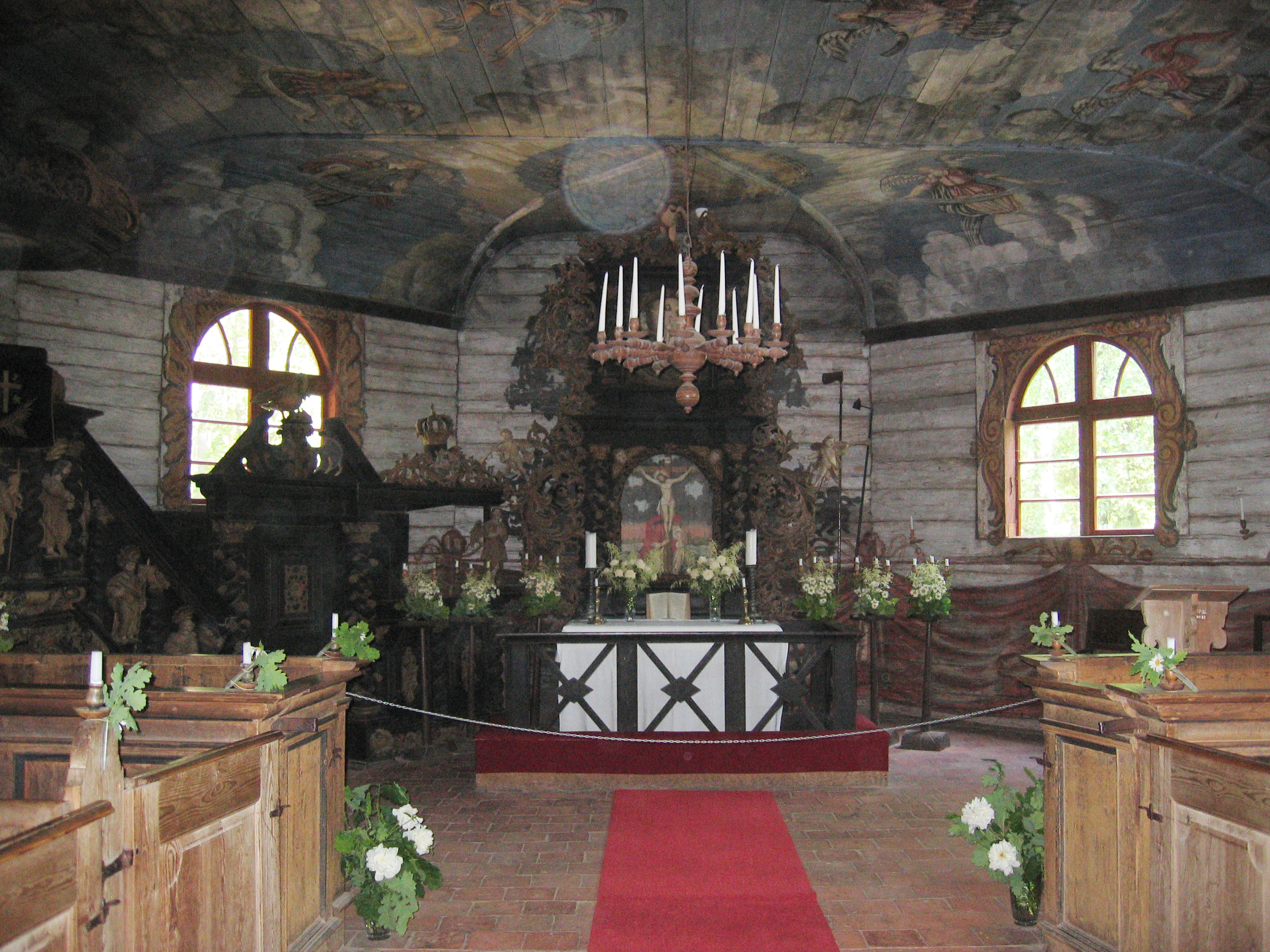 Latvia folk museum, the church interior